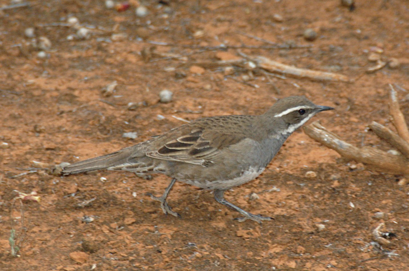 Cinclosoma castanotum, taken at Gluepot Reserve, South Australia